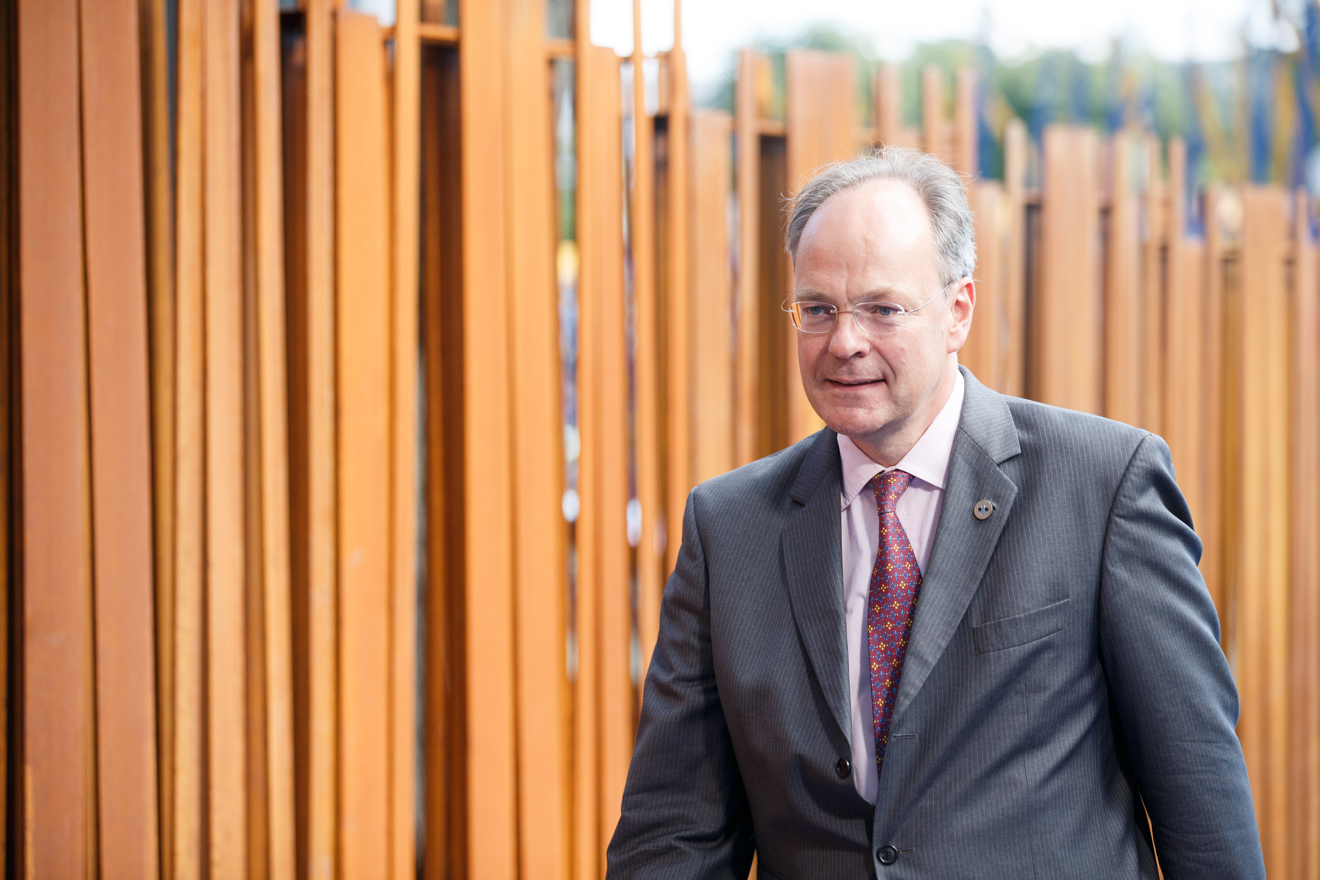 Christoph Eichhorn, Ambassador, German Embassy in Tallinn, Germany